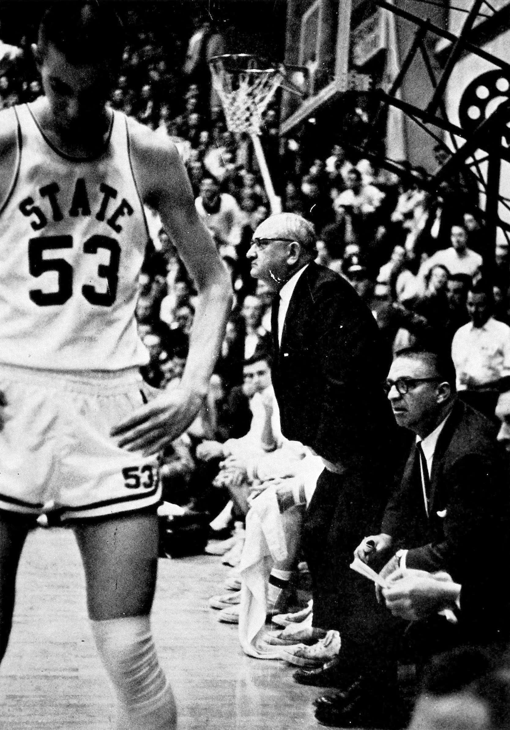 Kentucky Wildcats coach Adolph Rupp standing on the sideline of a Kentucky at Mississippi State basketball game at McCarthy Gymnasium on February 11, 1963. This photo was scanned from the 1963 edition of Reveille, the yearbook of Mississippi State University.